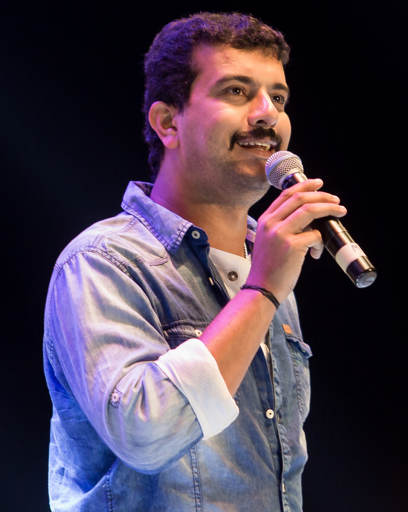 Ramesh Pisharidy